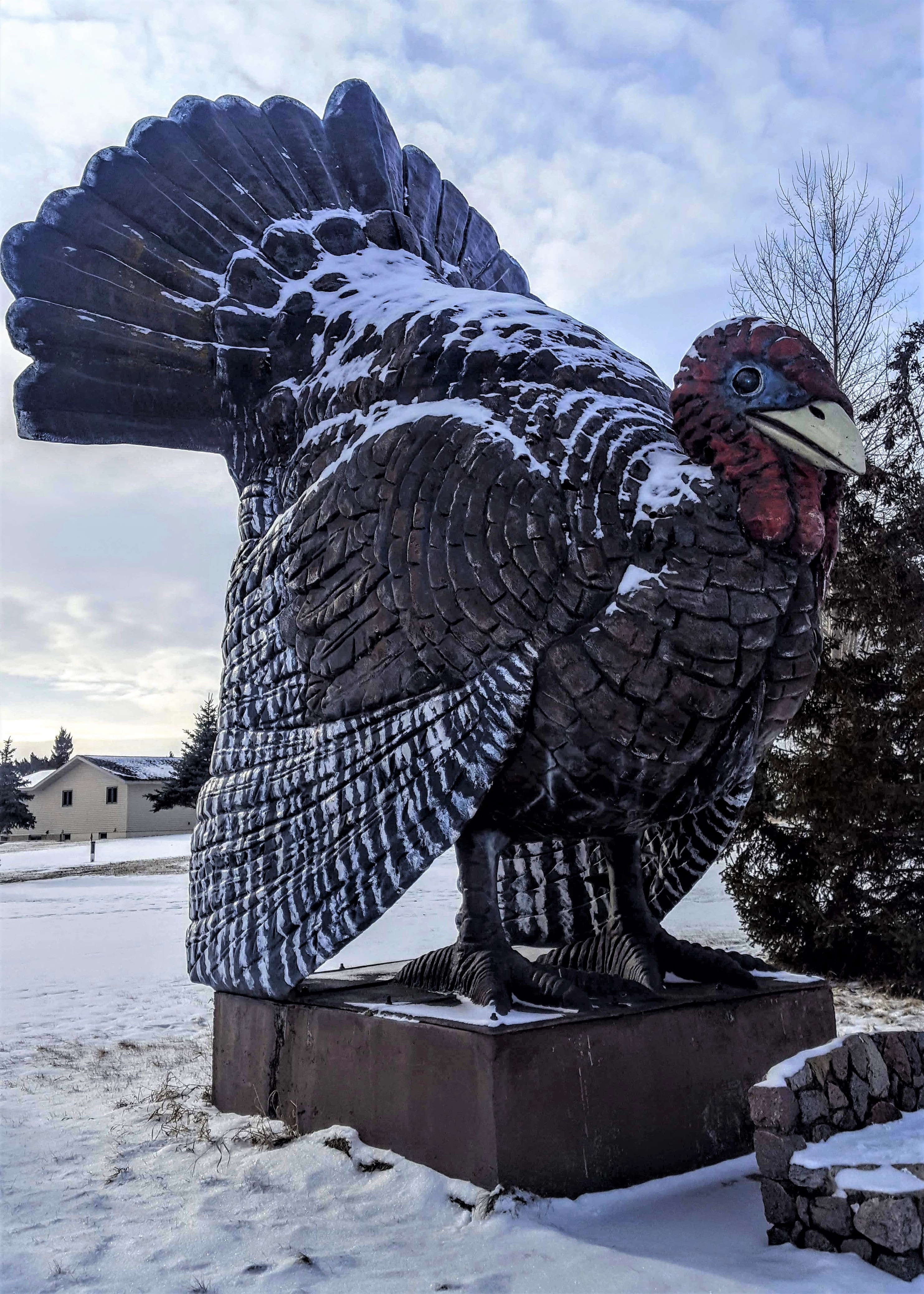 Twenty foot tall fiberglass sculpture of a turkey located in Frazee, Minnesota. The turkey is named "Big Tom" and was created in 1998.